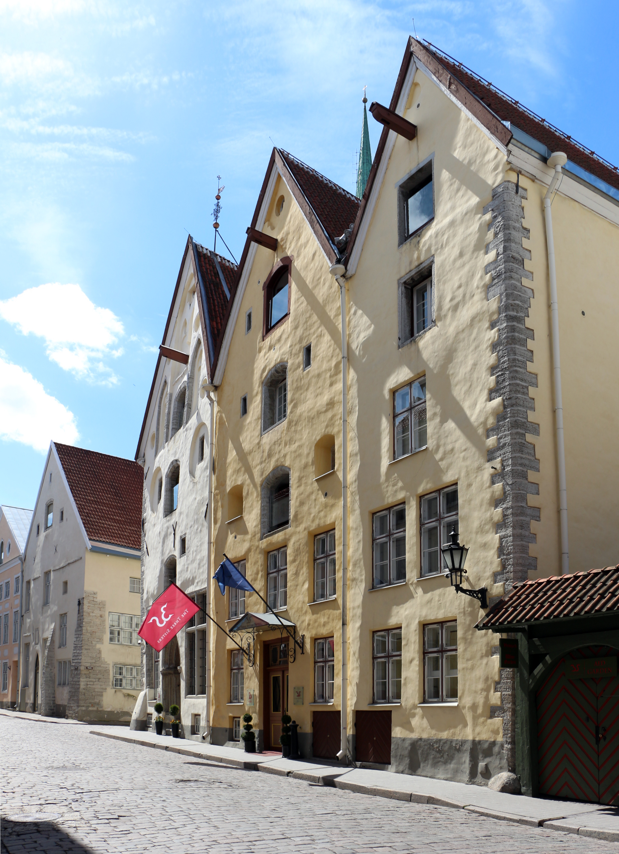 Three Sisters in Tallinn